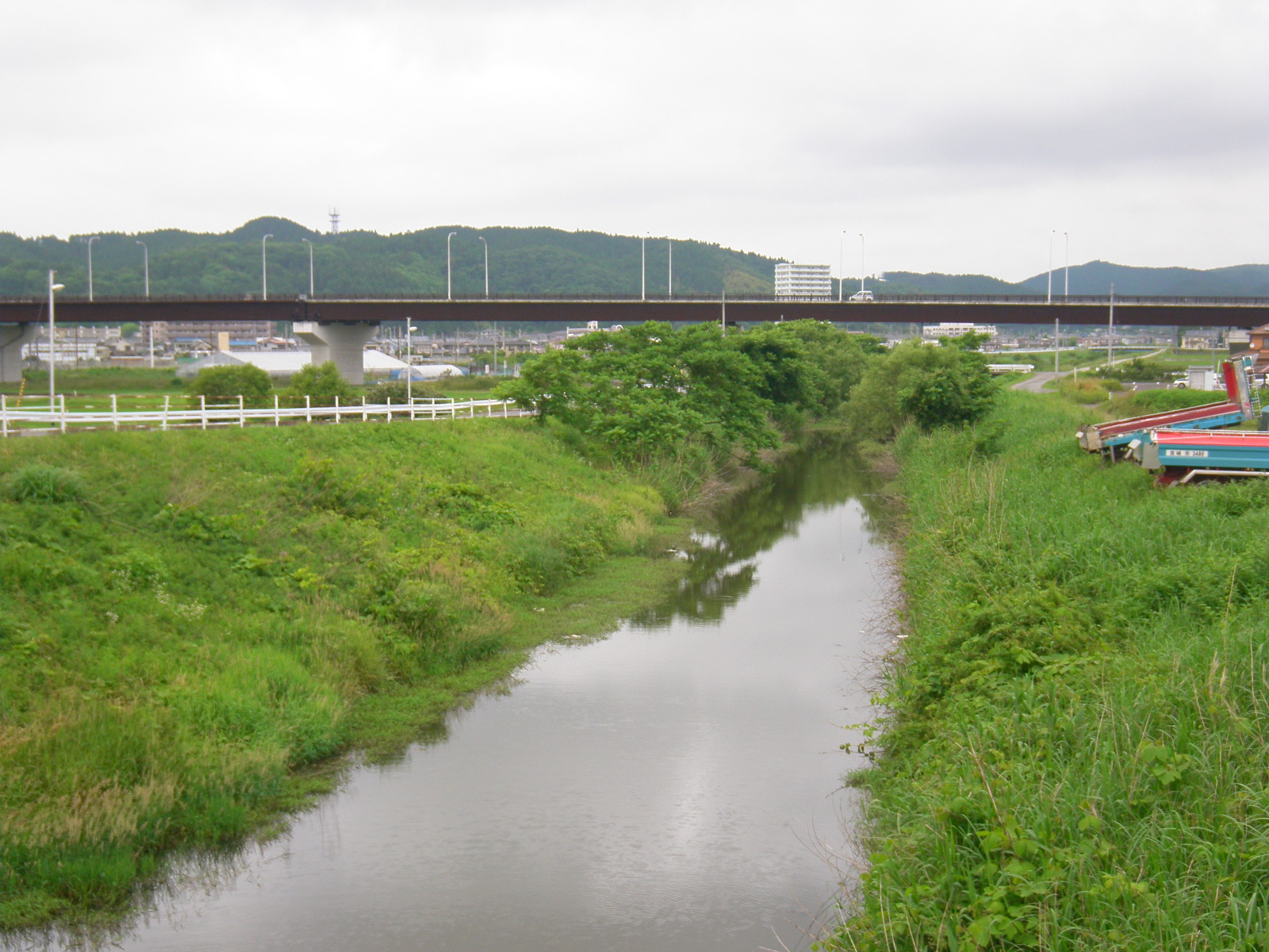 Nakoso River. Rifu, Miyagi prefrecture, Japan.